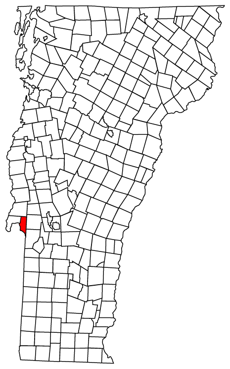 Description: Map of Vermont towns with Fair Haven highlighted Source: Map created by Jared C. Benedict on 26 March 2004. Copyright: © Jared C. Benedict. Category:Fair Haven, Vermont